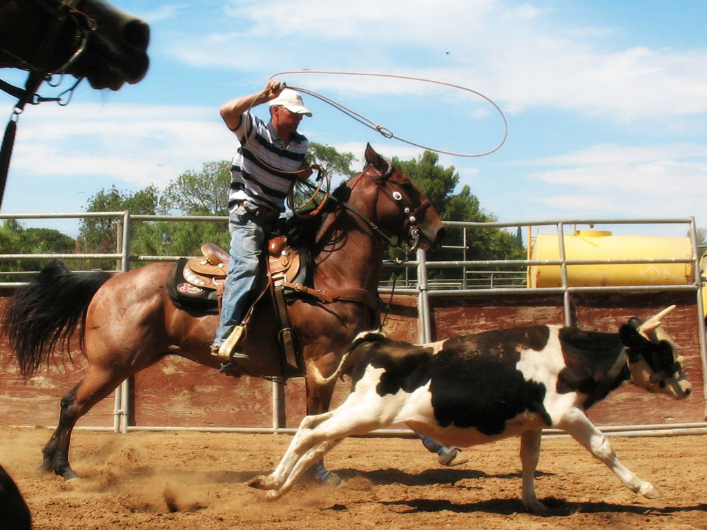 I had something better than a front row seat, I was sitting inside the roping arena.